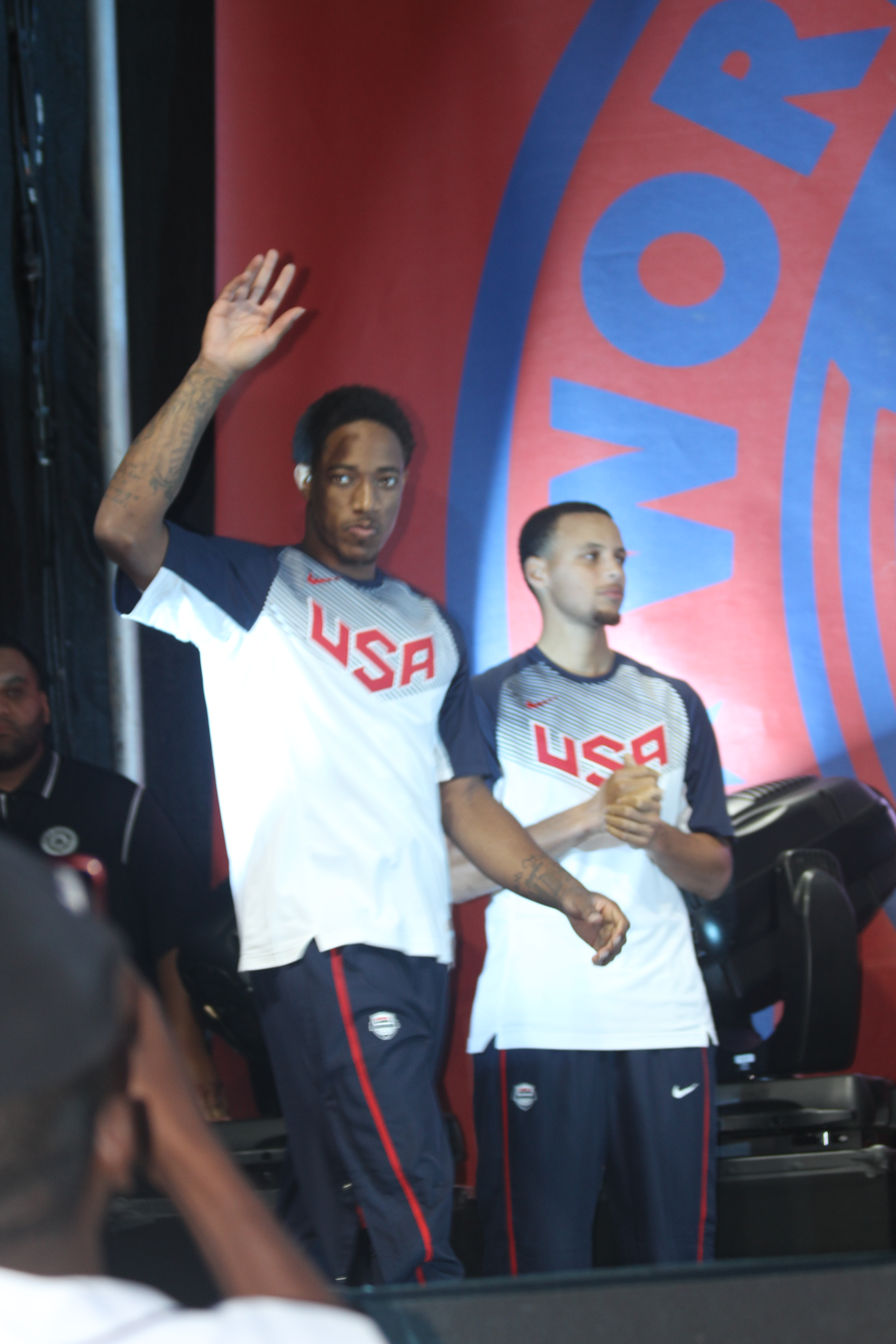 DeMar DeRozan at 2014 World Basketball Festival at 63rd Street Beach in Chicago